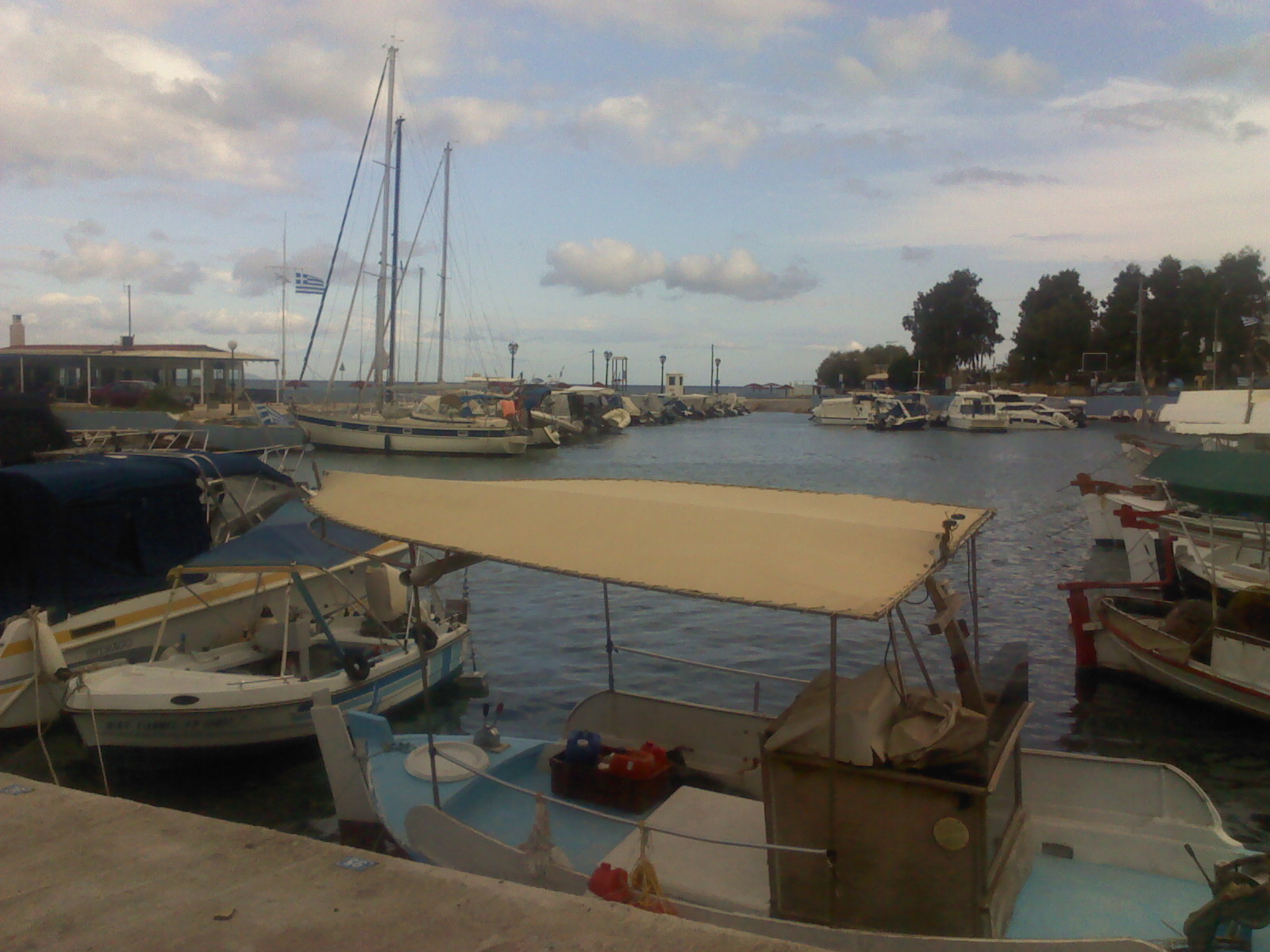 Naval Club Nea Makri